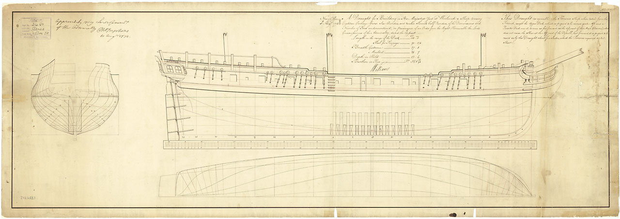 Ceres (1777) Scale: 1:48. Plan showing the body plan, sheer lines with some midship section framing, longitudinal half-breadth for Ceres (1777), an 18-gun Ship Sloop. The plan states that she was based on the sheer of the captured French Pomona (captured 1761). Signed by John Williams [Surveyor of the Navy, 1765-1784]. CERES 1777